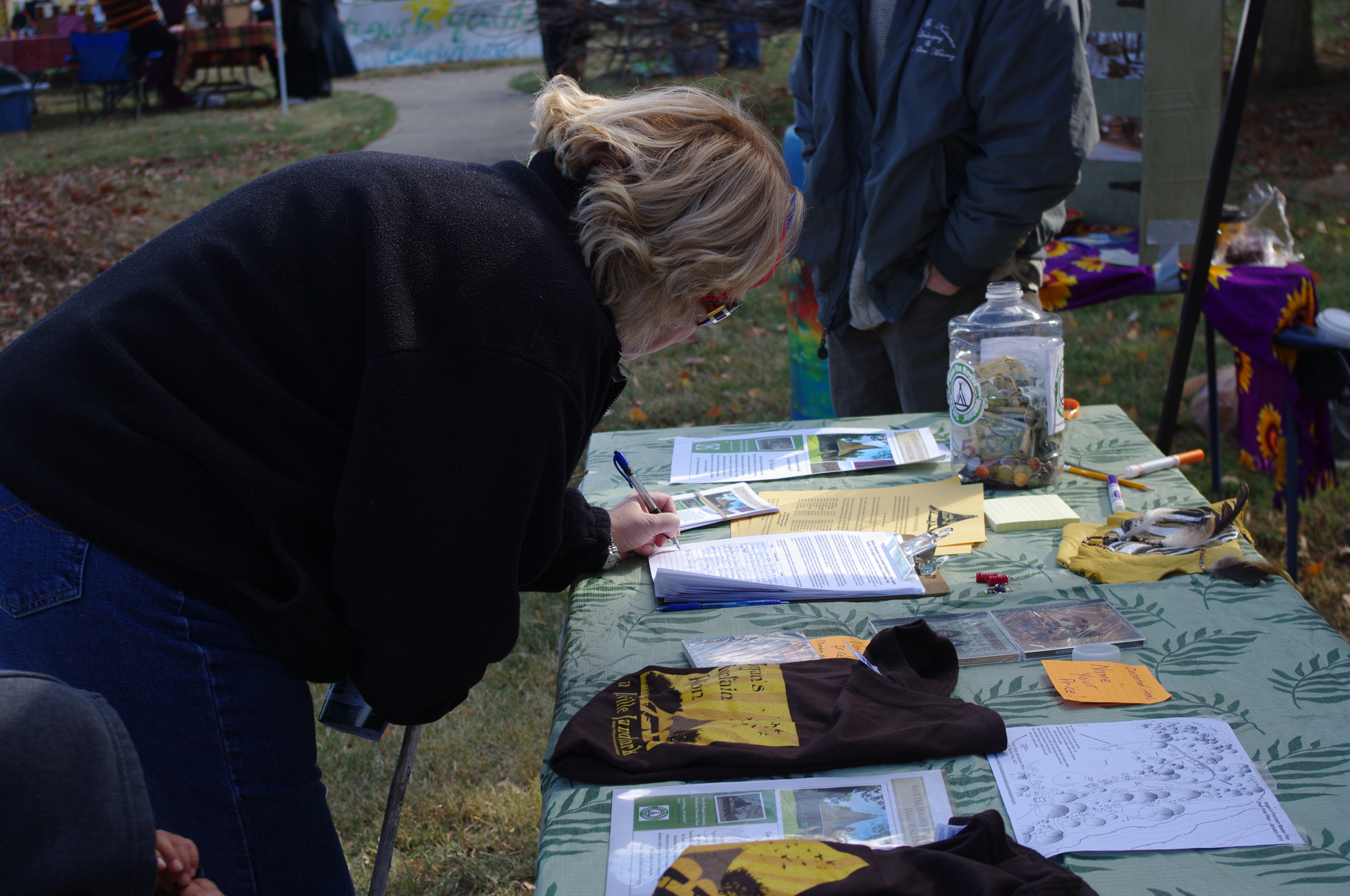 Save the Hogan Fountain Pavilion Group spreading the message in Louisville, Kentucky